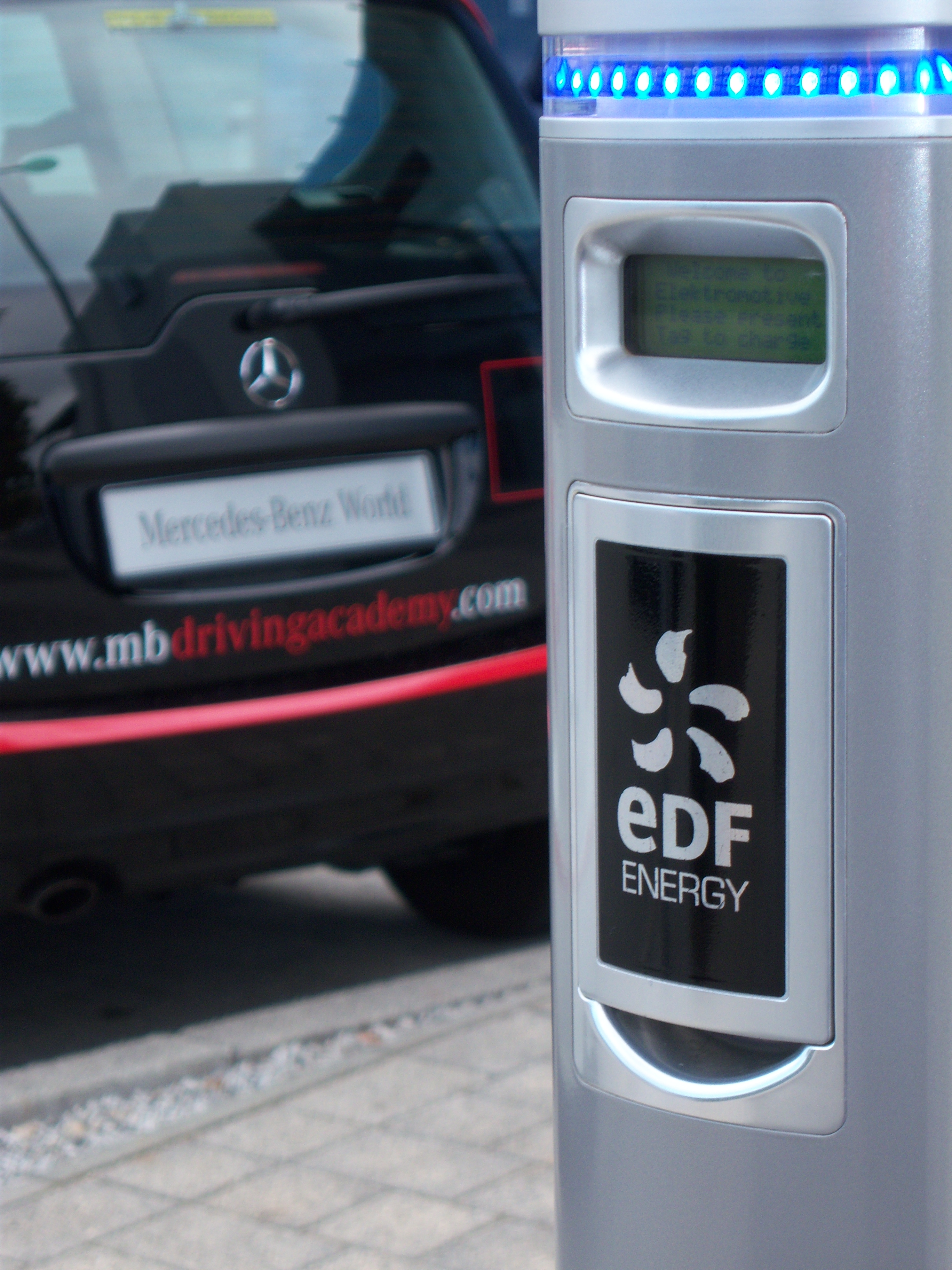 Picture of an Elektromotive Elektrobay unit at Mercedes-Benz World, Brooklands, Surrey, UK.